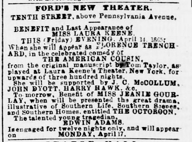 Advertisement for American Cousin playing at Ford's Theatre on April 14, 1865, appearing on page 1 of the Washington Evening Star that day. The day Abraham Lincoln was shot.